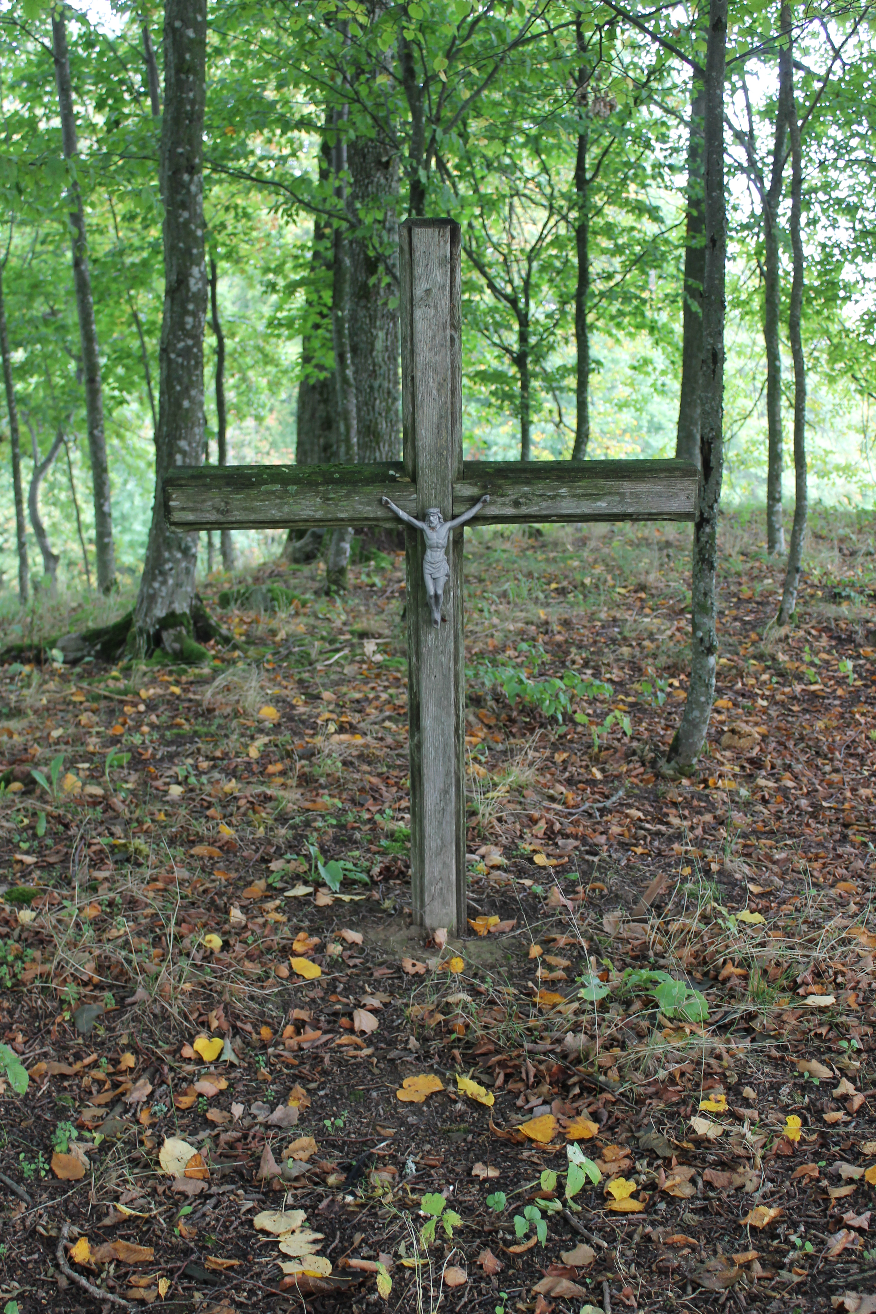 Šiemuliai cemetery, Plungė district, LithuaniaLietuvių: Šiemulių kapinių kryžius, Plungės rajonas, Lietuva